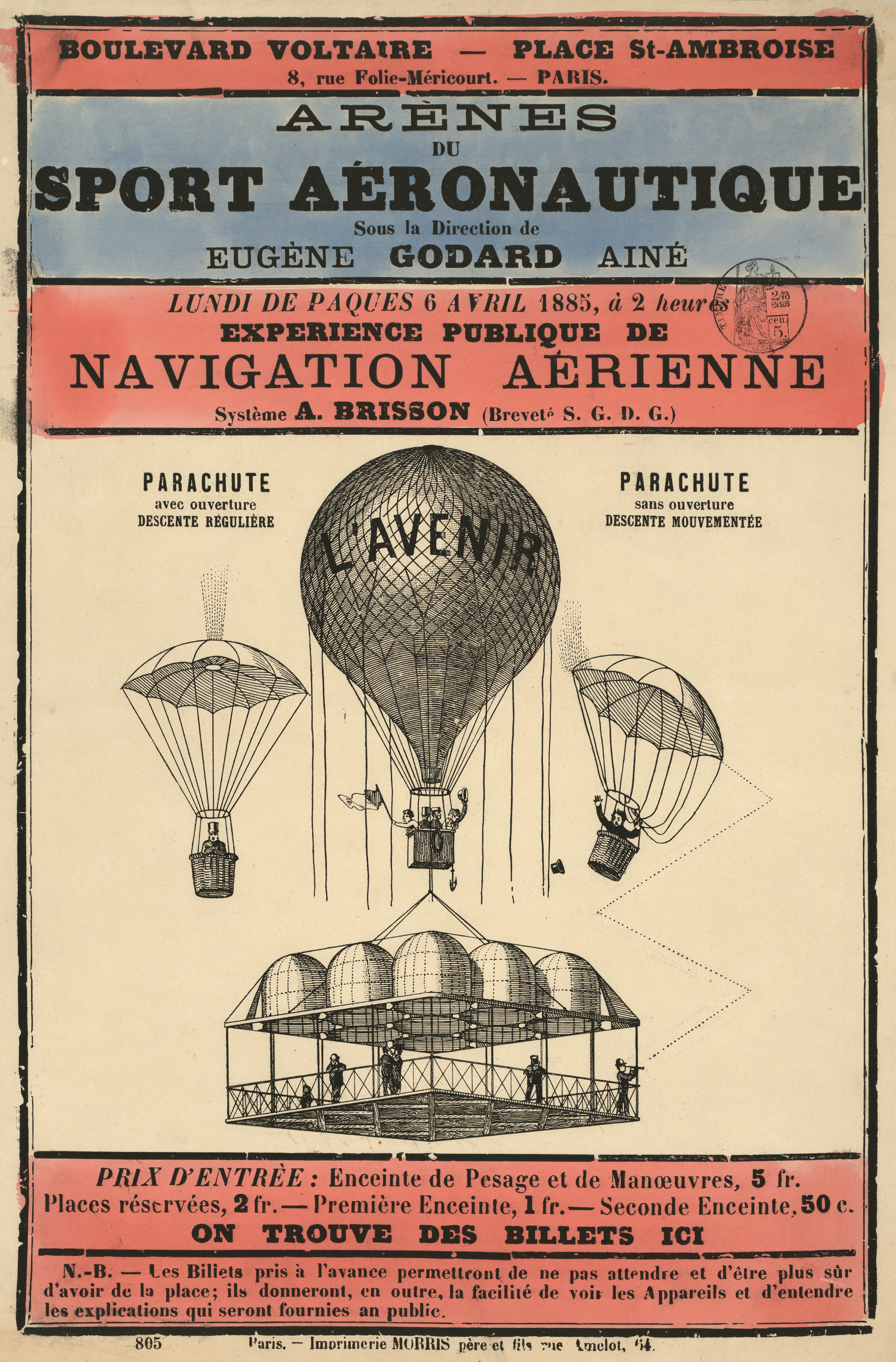 Broadside announcing an aeronautics exhibition organized under the direction of balloonist Eugene Godard and held in Paris in 1885. Includes picture of the balloon "L'Avenir" equipped with two separate passenger areas--a basket attached directly under the balloon and a platform secured below the basket. Two parachutists descend on either side of the balloon.